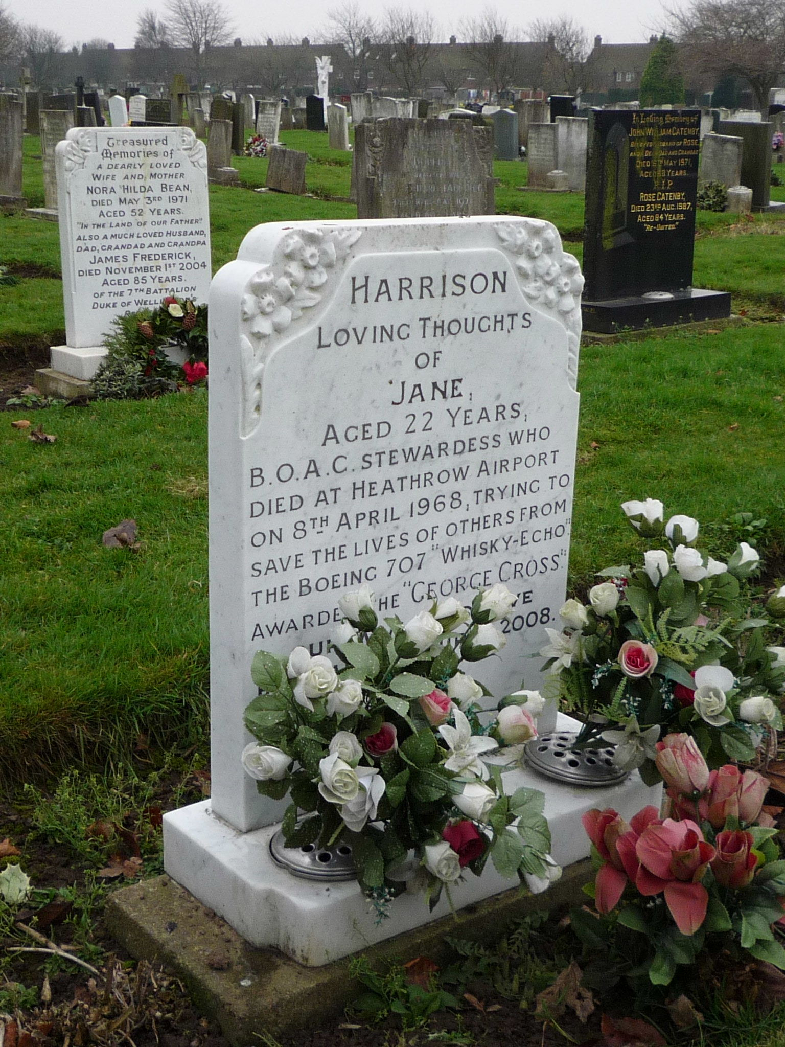 The grave of Barbara Jane Harrison in Fulford Cemetery, York